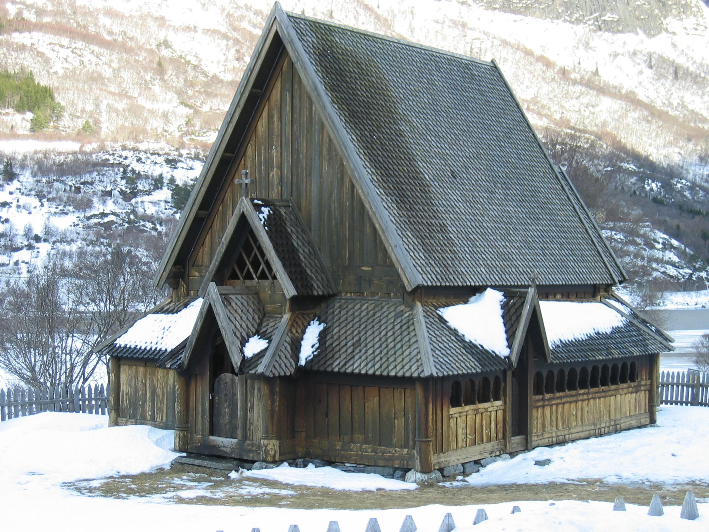 Øye Stave Church, Vang, Oppland, Norway.